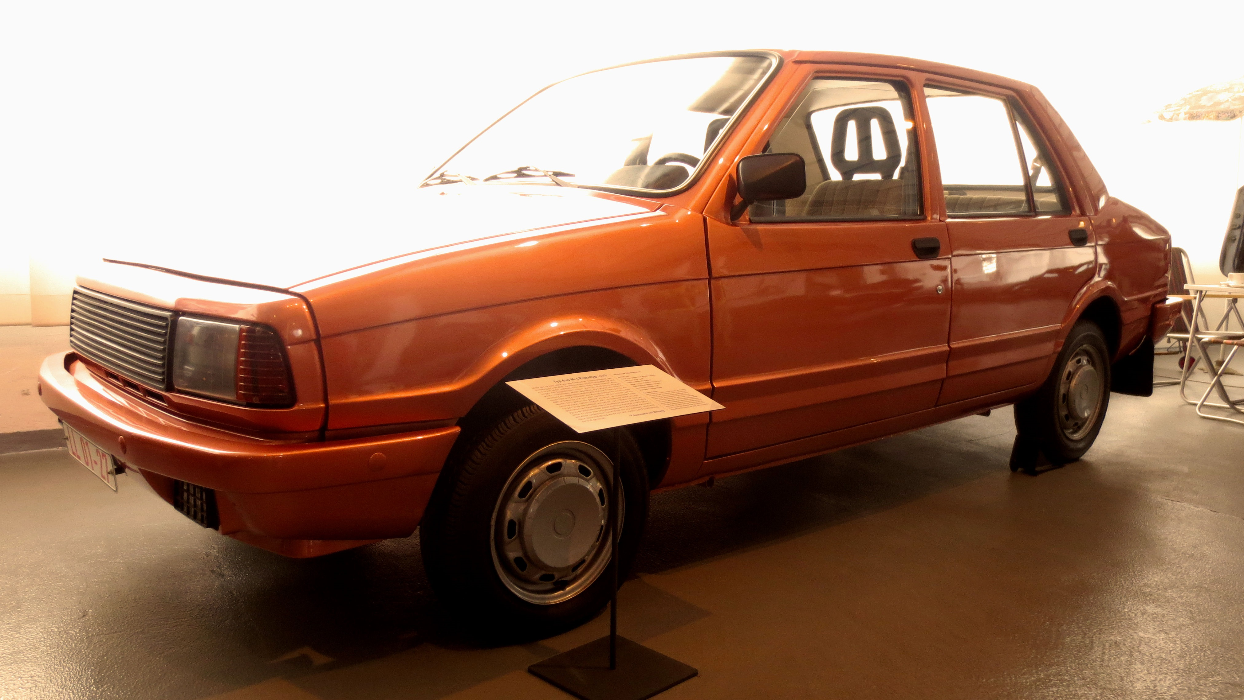 Wartburg Typ 610 M (prototype); Automobile Welt Eisenach Museum, Eisenach (Germany)